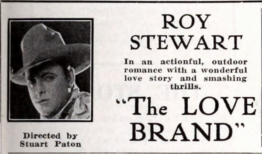 Advertisement for the American western film The Love Brand (1923) with Roy Stewart, on page 33 of the August 4, 1923 Universal Weekly.